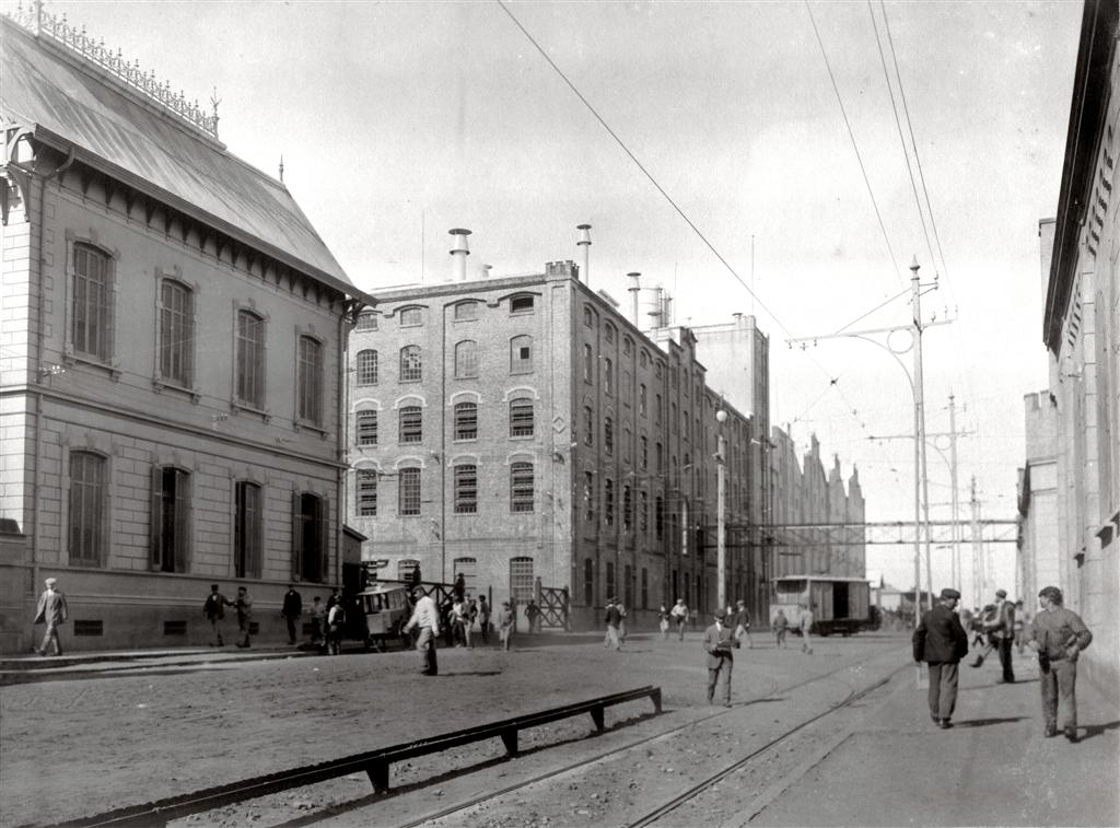 Cerveceria Quilmes plant and workers.